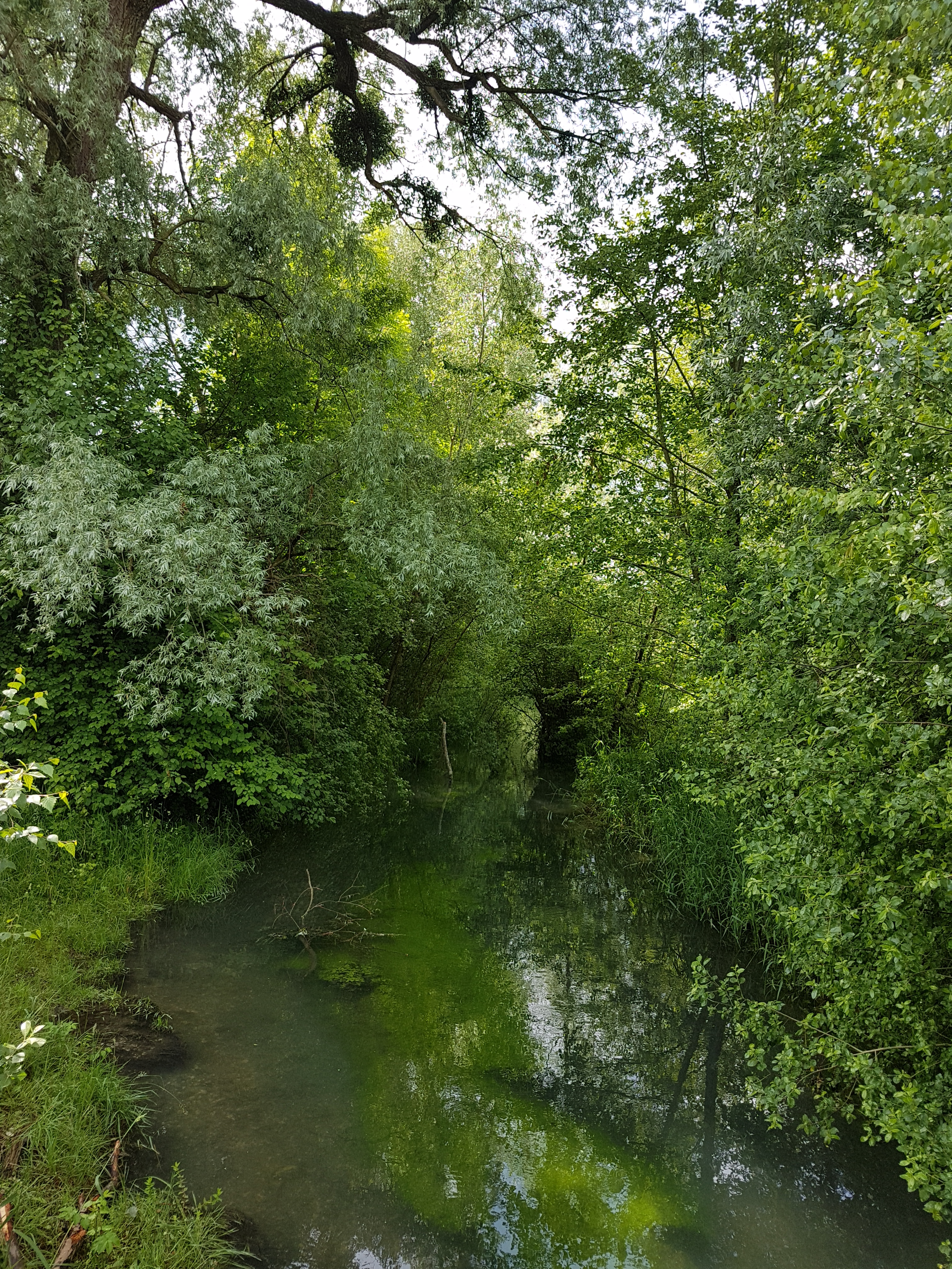 Ruggeller Riet (also “Ried”, meaning: reed) in Ruggell, Principality of Liechtenstein. "Mühlebach" (meaning: mill stream) in Ruggell.